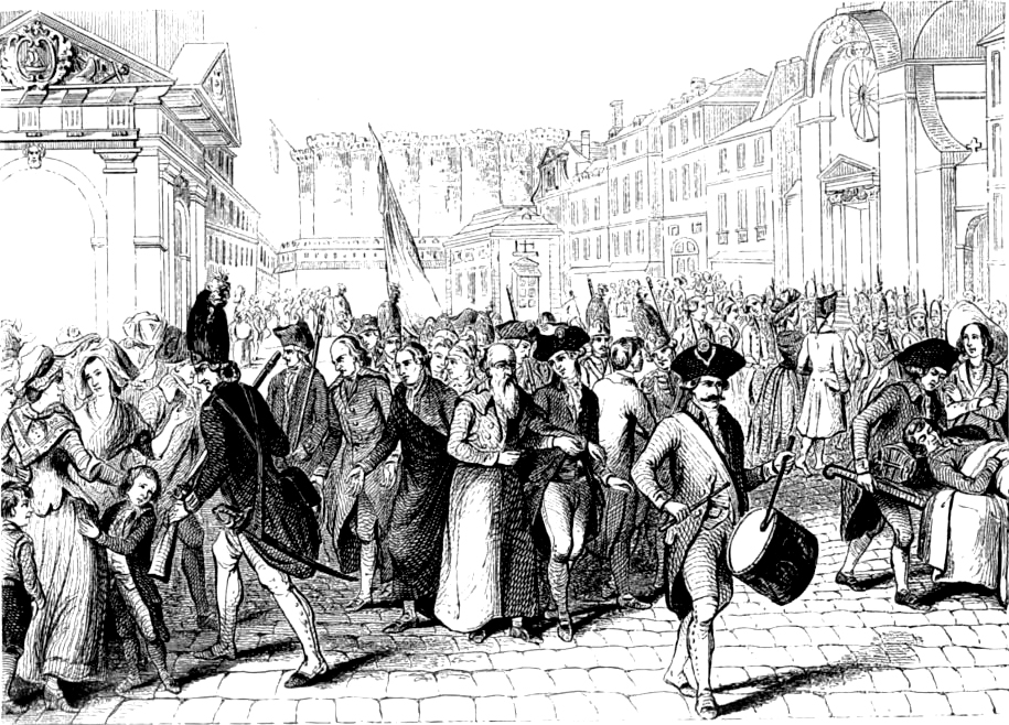 The Early Hours of Bastille Day.